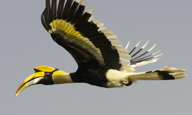 Great Hornbill - male Buceros bicornis Gunong Raya, Langkawi, Malaysia 19th. October 2010 Habitat: Distribution: 690V3053